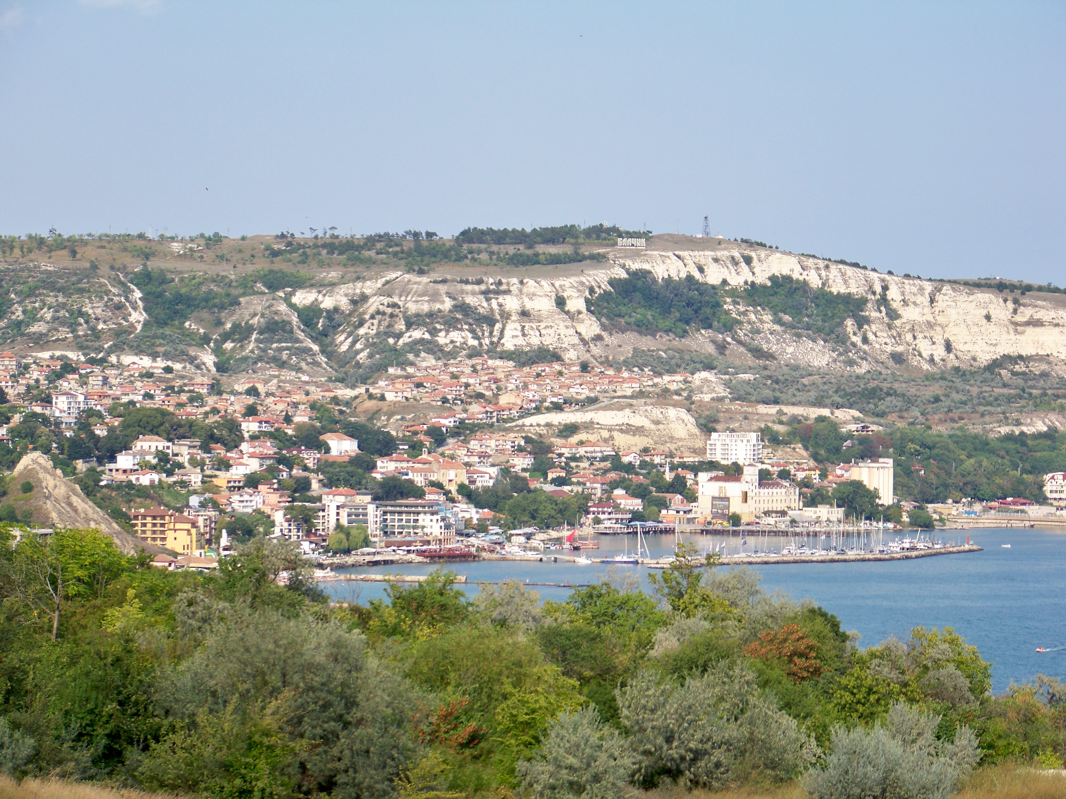 Is a Black Sea coastal town and seaside resort in the Southern Dobruja area of northeastern Bulgaria.